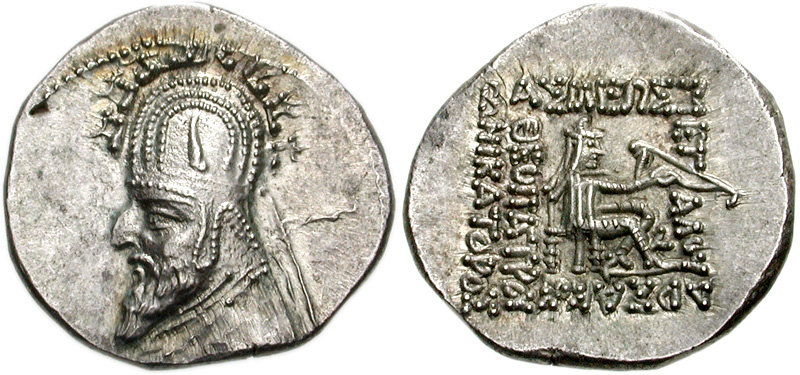 Coin of Sanatruces.